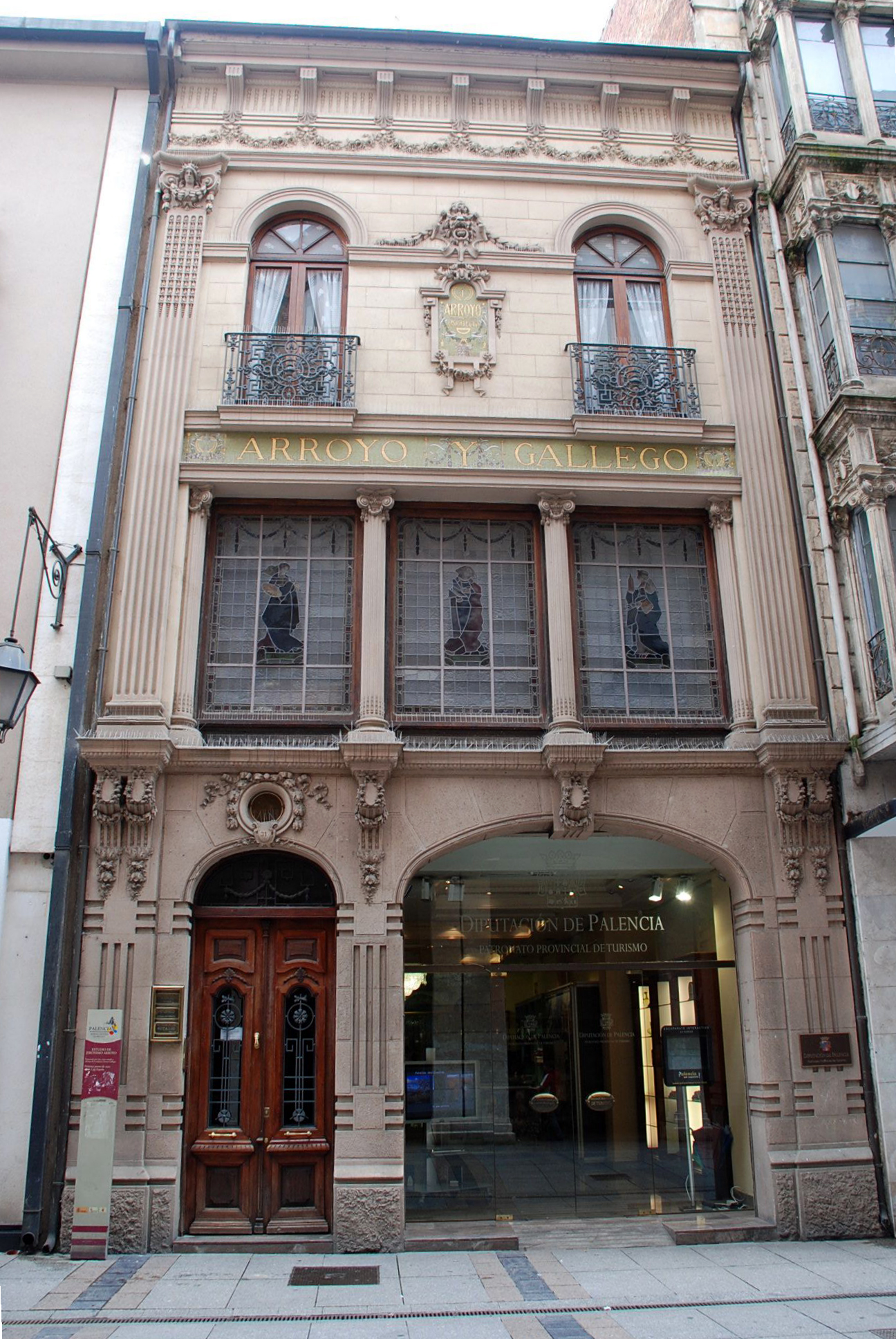 Study of Arroyo and Gallego in the Calle Mayor of Palencia (Castile and León).